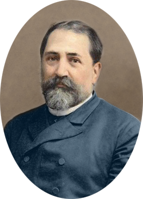 Georgian author (etc.) Ilia Chavchavadze (digitally colorized illustration derived from a period monochrome photograph)